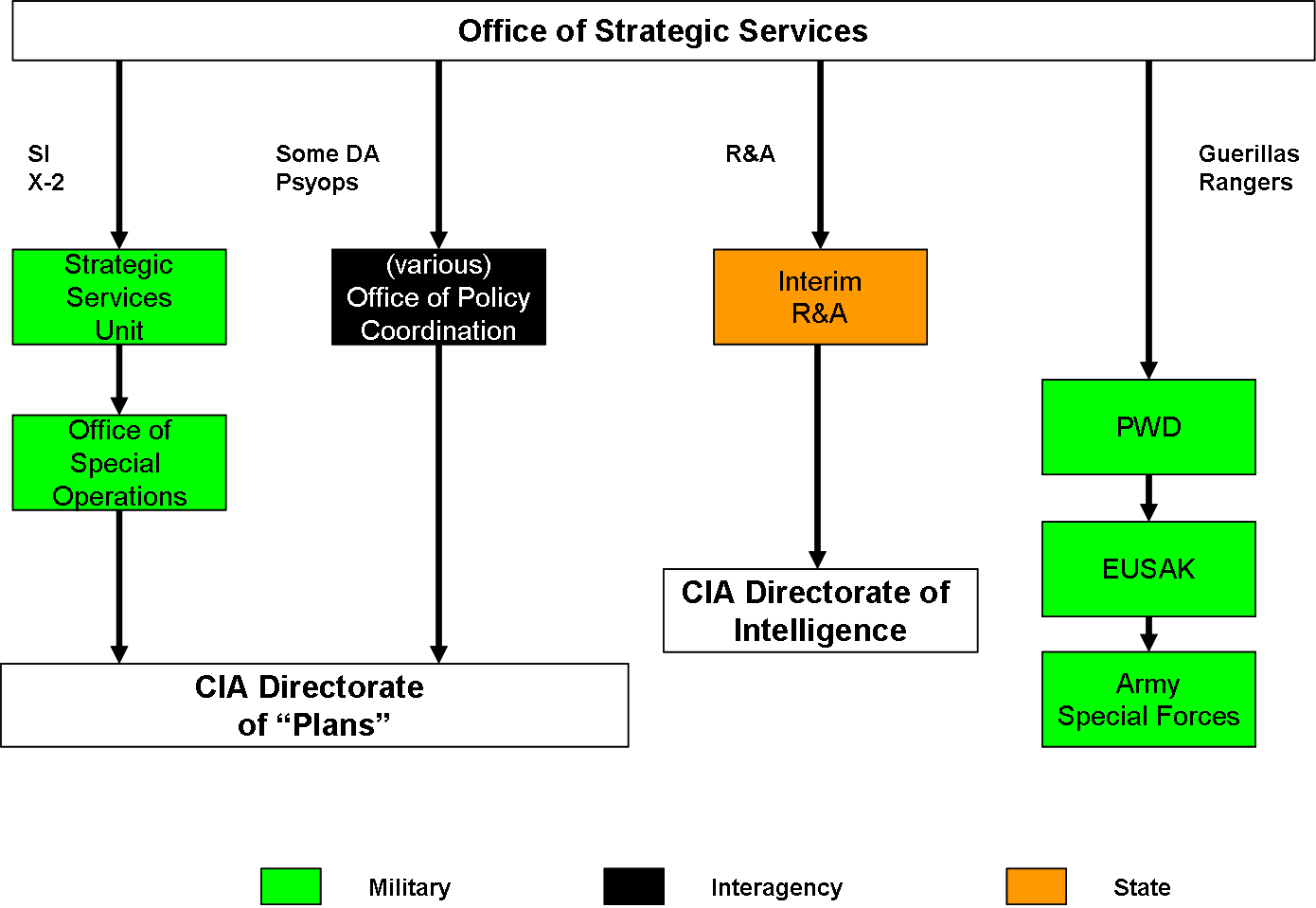 Approximate transitions from OSS to CIA + Special Forces